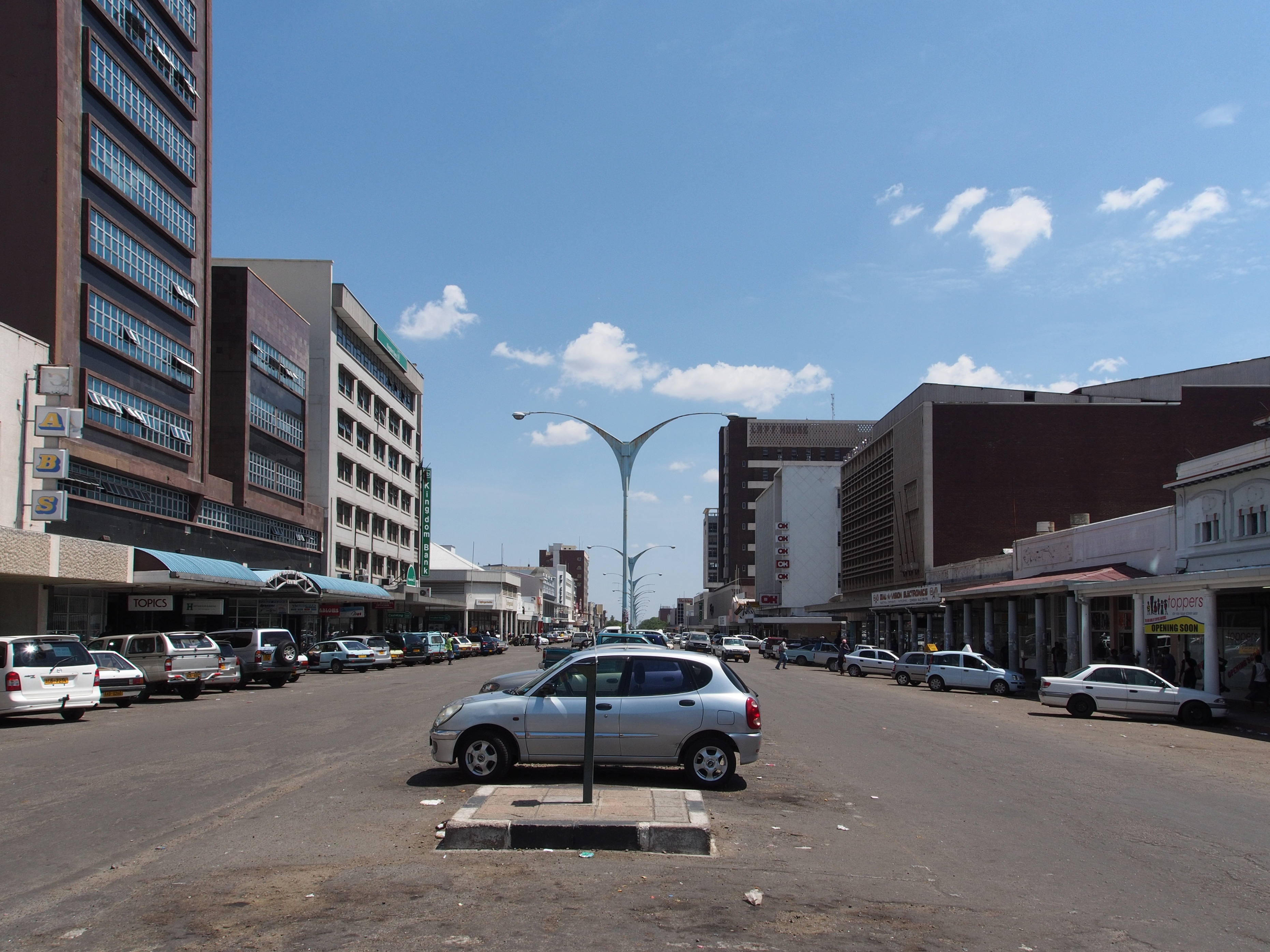 Street view, dwontown Bulawayo, Zimbabwe